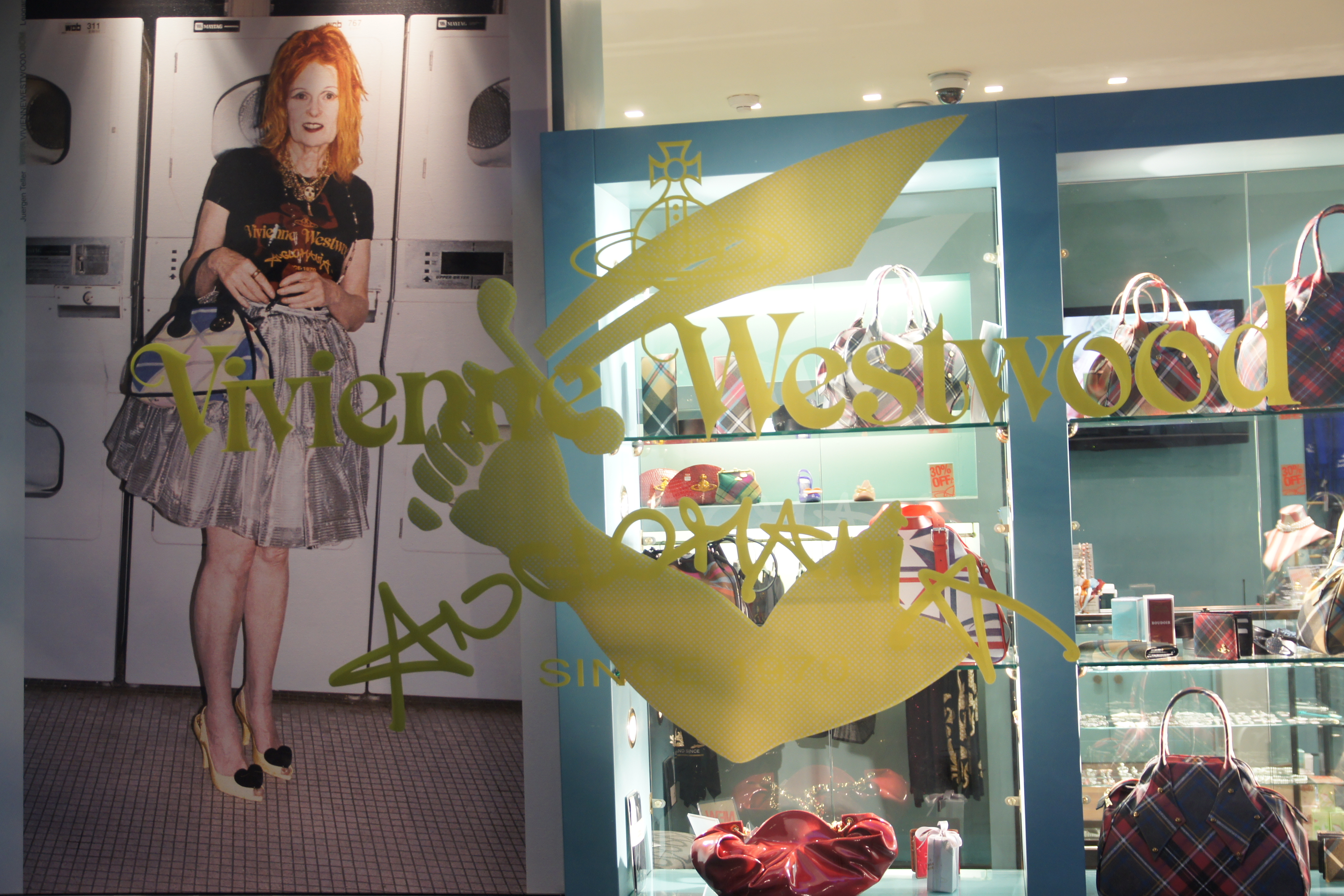 So, it turns out this designer was the manager of the Sex Pistols, the band that, according to Wikipedia, initiated the punk movement in the United Kingdom. Vivienne Westwood in turn, was "largely responsible for bringing modern punk and new wave fashions into the mainstream." Note that this was in Manchester, birthplace of much of British underground music.